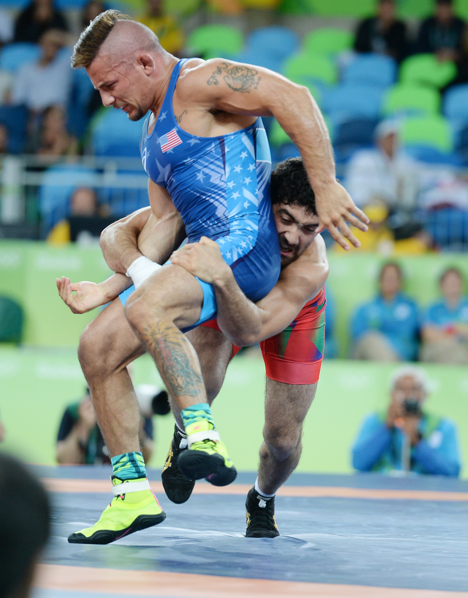 Wrestling at the 2016 Summer Olympics, Asgarov vs Molinaro